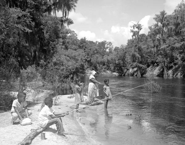 Local call number: FN85520B Title: Thelma Boltin and the Bryant children fishing along the Suwannee River Date: 1957 Physical descrip: 1 photonegative - b&w - 4 x 5 in. Series Title: Repository: 500 S. Bronough St., Tallahassee, FL 32399-0250 USA. Contact: 850.245.6700. Persistent URL